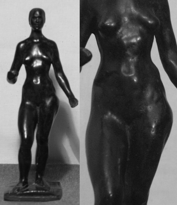 Photo of sculpture "Nude" - autor Gabriel Schultz (property of Alexej Schultz) (autor pfoto - Alexej Schultz)